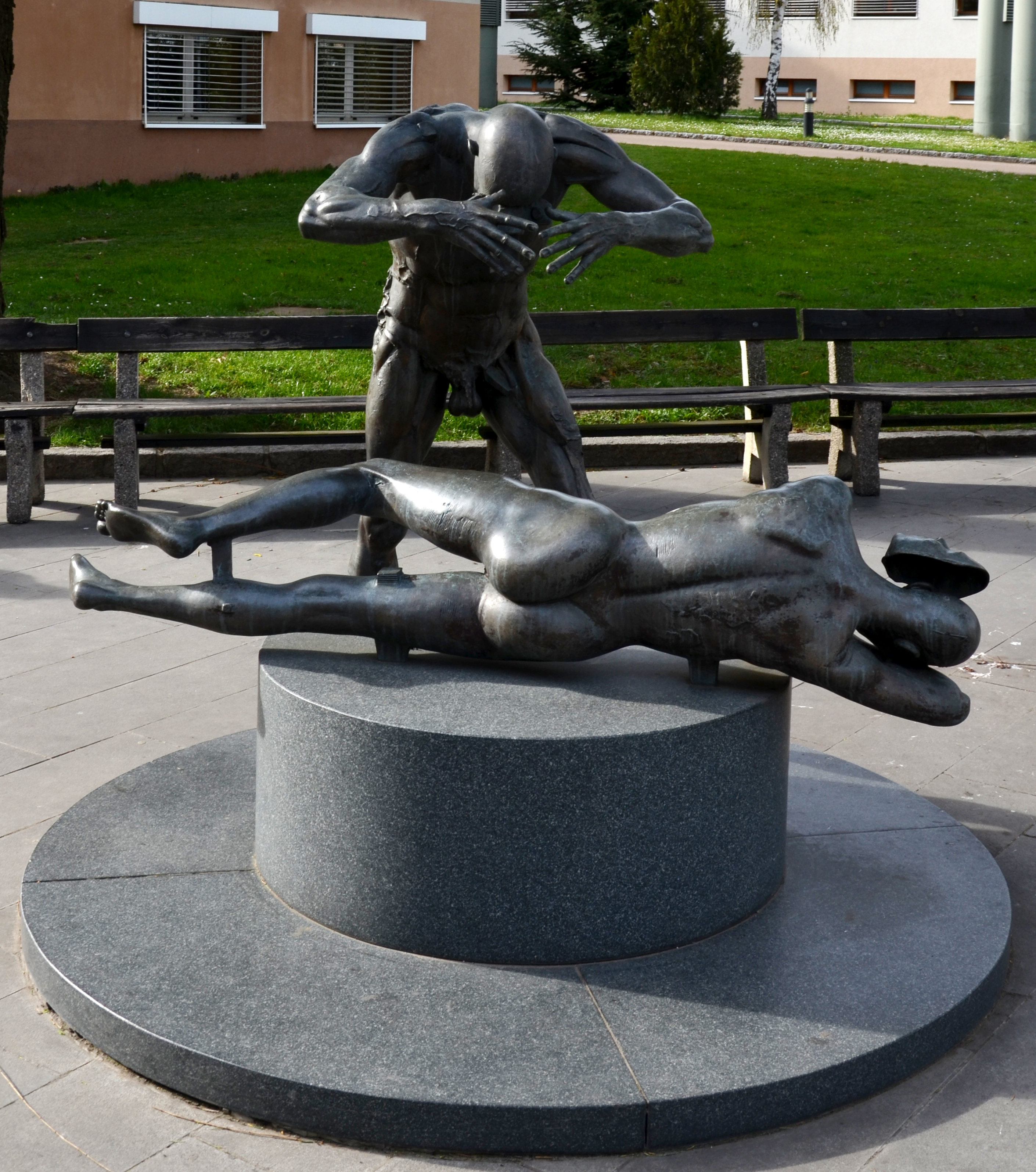 Czech sculptor Peter Oriešek: Photographer and Model (3), Central military hospital, Prague